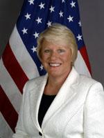 Official portrait of Barbara J. Stephenson, U.S. Ambassador to Panama